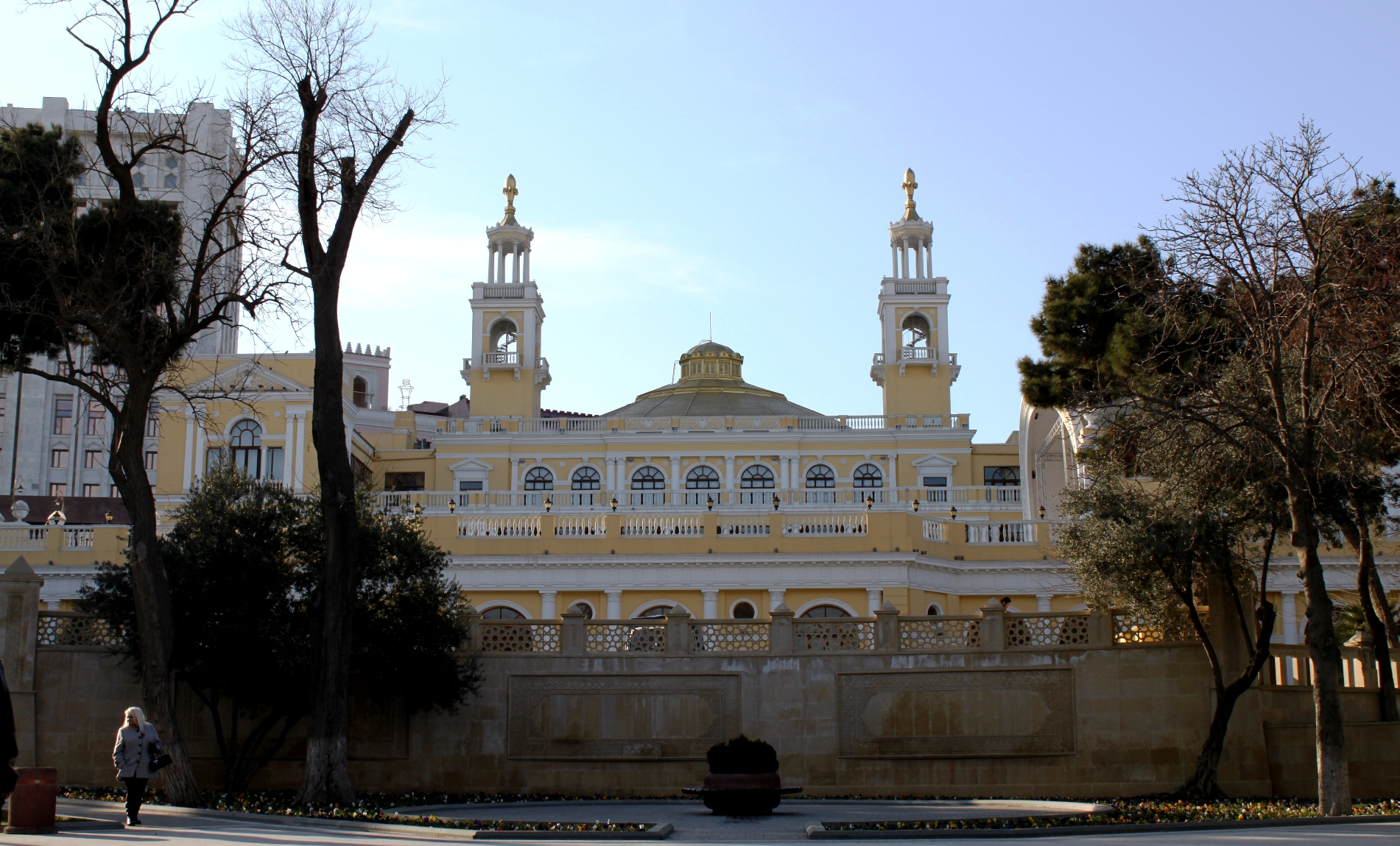 Filarmonia building in Baku Azerbaijan